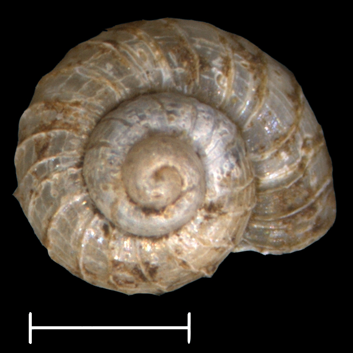 Photo of an apical view of a shell of holotype of Maizaniella sapoensis (RMNH 113993, collection of the National Museum of Natural History, formerly Rijksmuseum van Natuurlijke Historie, Leiden.). Scale bar is 1 mm.